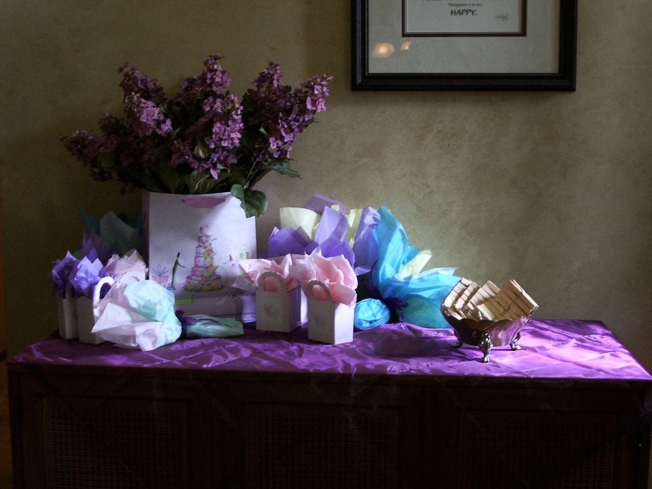 This is the gift table that my sister made.